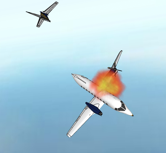 In its final moments, Flight 2574 was hurtling towards the ground in pieces. A horrible mistake caused a small piece of the horizontal stabilizer leading edge to break off. This disrupted airflow and caused the plane to tumble out of the sky. The left wing tore apart and ignited under the stress, and came off completely a few seconds before impact. Between the time at which the wing twisted and the time at which the wing came off, the tail section snapped off as well. Many of the 14 people on board likely lost consciousness before the impact with the ground that killed them all.